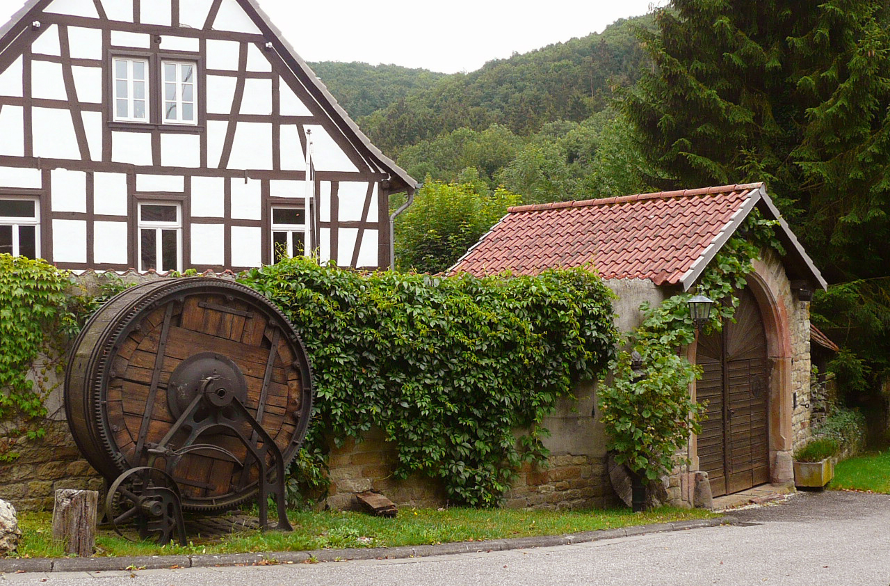 View of (future) restaurant Brasserie Voss in 2011, Kreuznacher Strasse n°1, Stromberg, district of Bad Kreuznach.